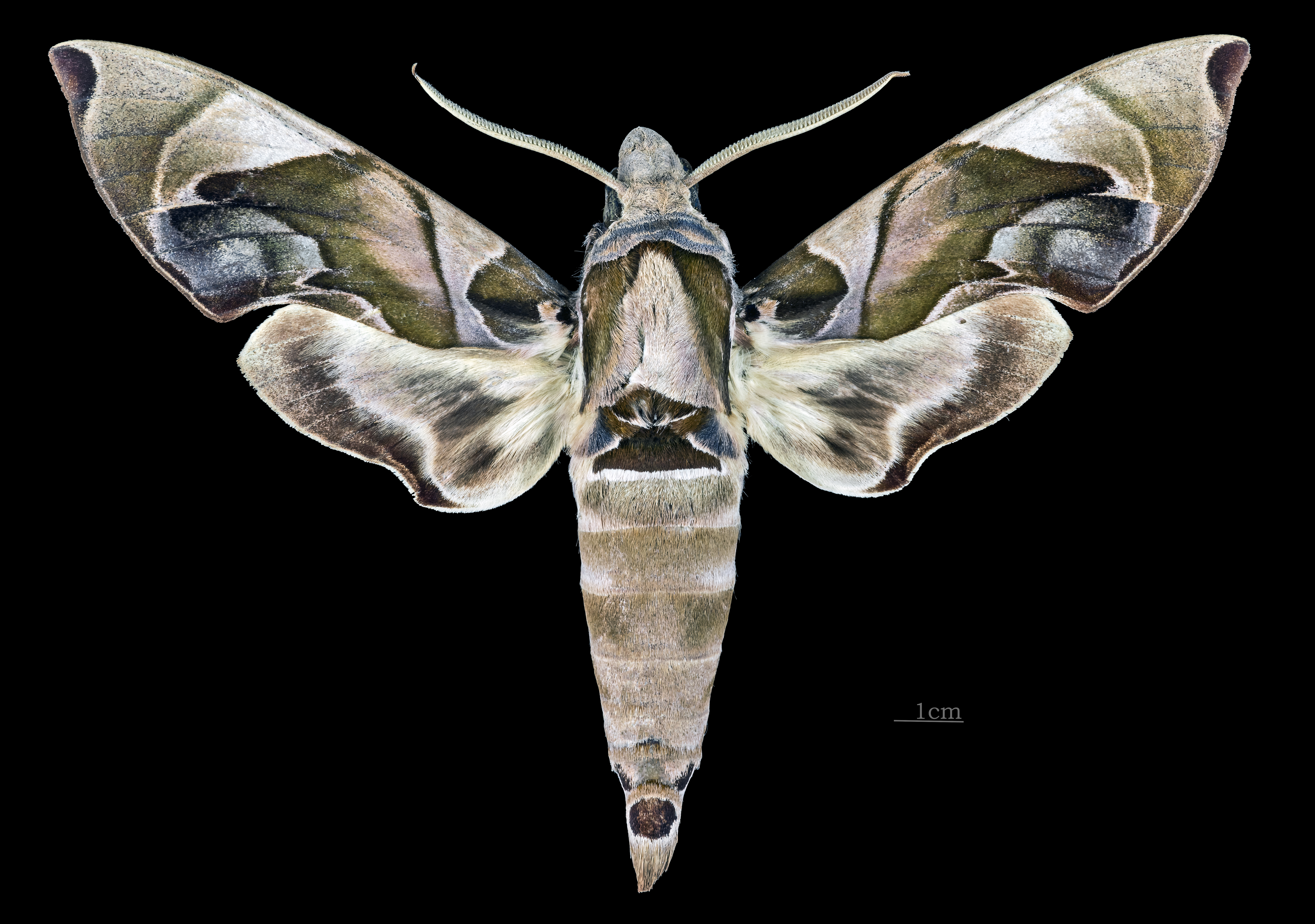 Daphnis protrudens - Dorsal side Collection of the Mathematician Laurent Schwartz